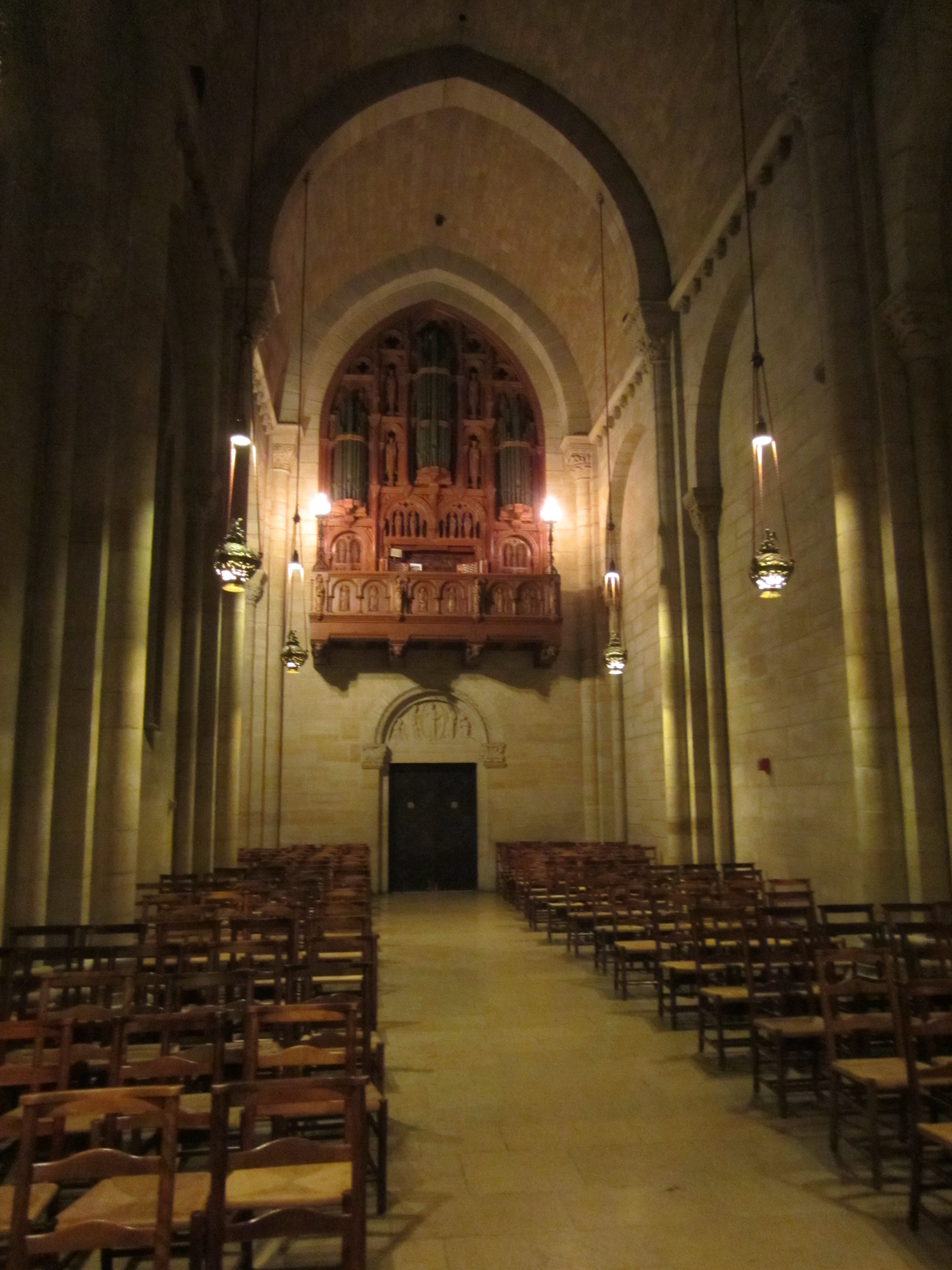 Riverside Church, New York City (June 2014)